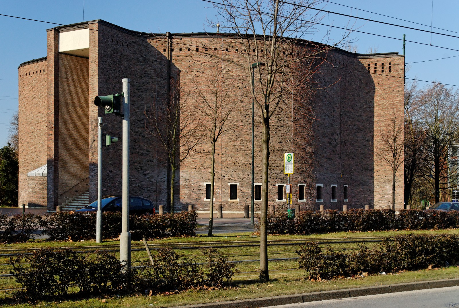 Franz von Sales Church in Düsseldorf-Wersten, Germany